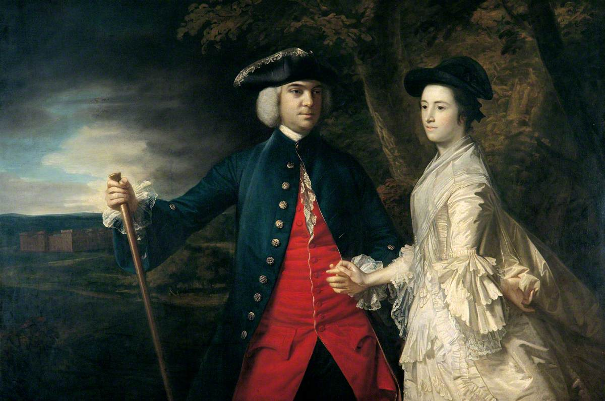 Reynolds, Joshua; John, 2nd Earl of Egmont and His Second Wife Catherine; Bradford Museums and Galleries